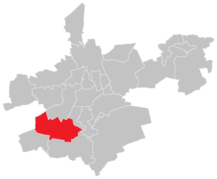 Location map of Olomouc district Slavonín